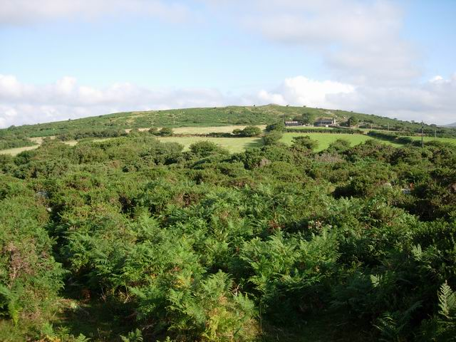 Warleggan Down. Looking towards Tor House